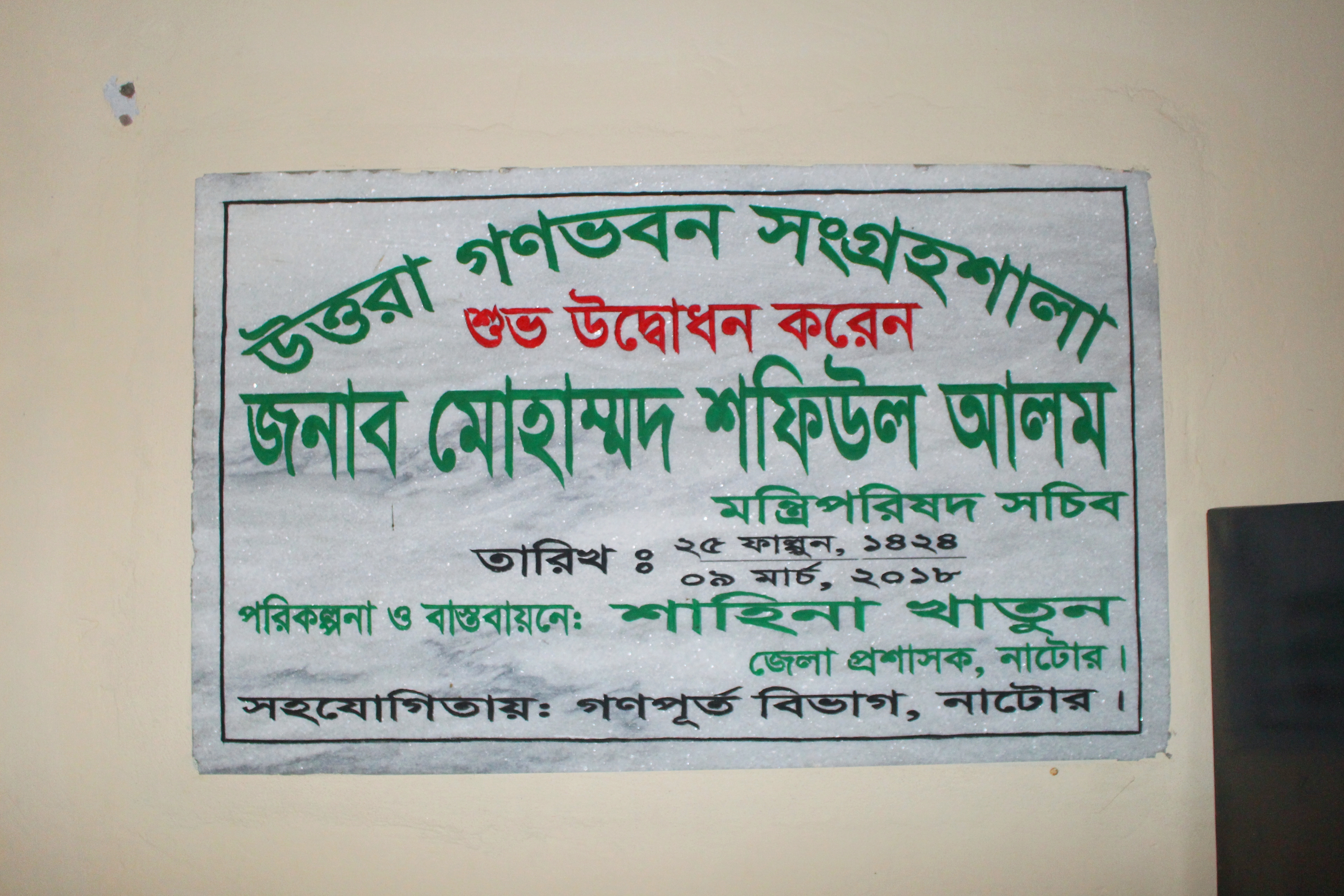 Uttara gonovaban museum